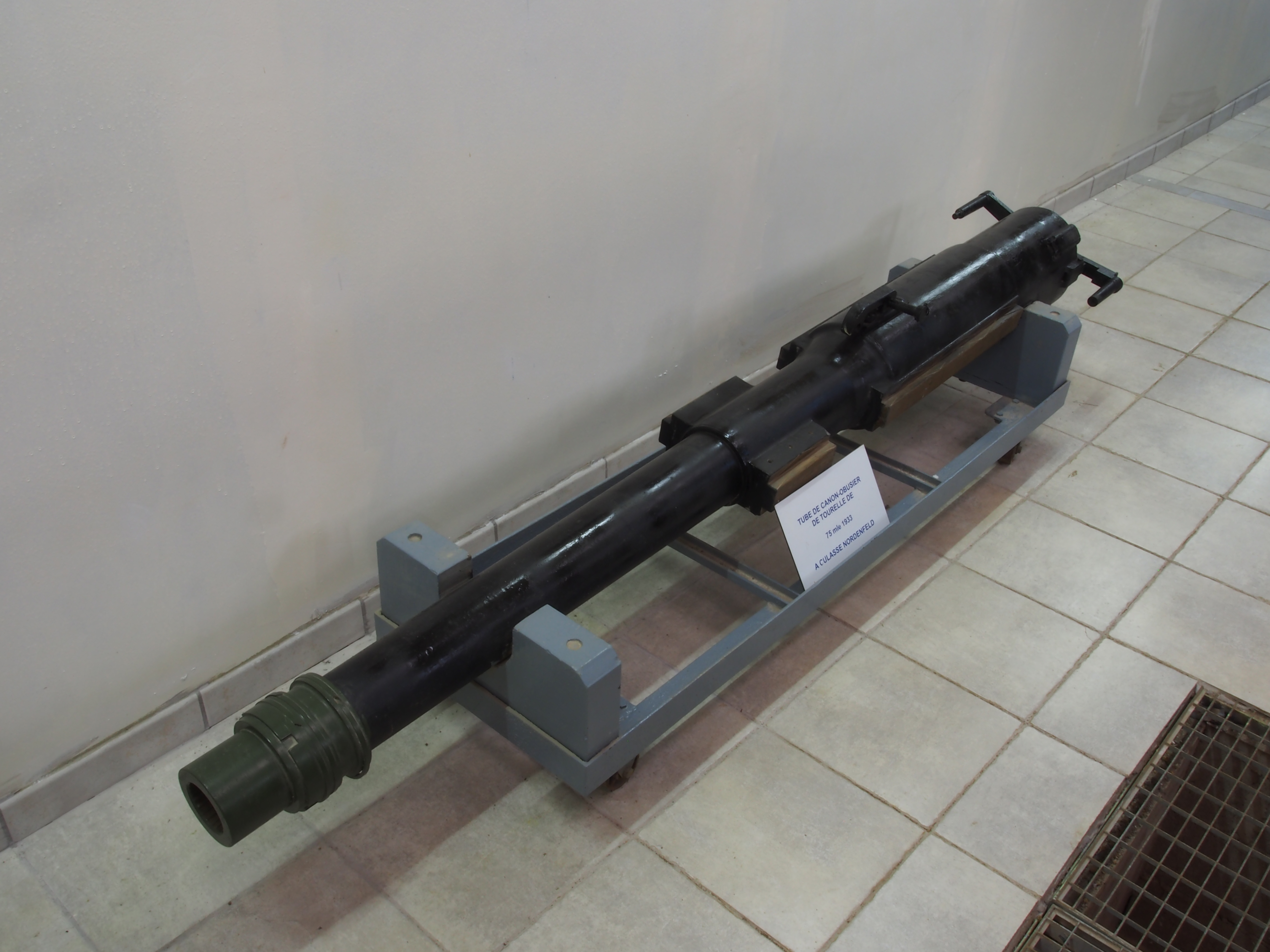 Fort de Fermont and its museum - Turret cannon-mortar barrel 75mle 1933 a Culasse Nordenfeld.